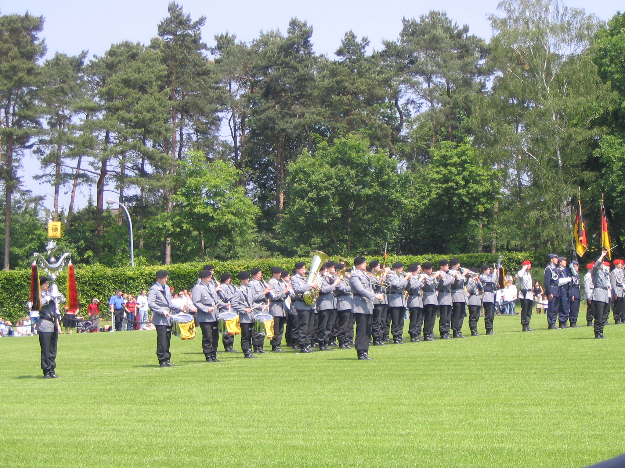 Heeresmusikkorps 1, first half of 2006. Playing at a Ceremonial oath of the Bundeswehr. You can see an Turkish crescent at the left. Please obey the License